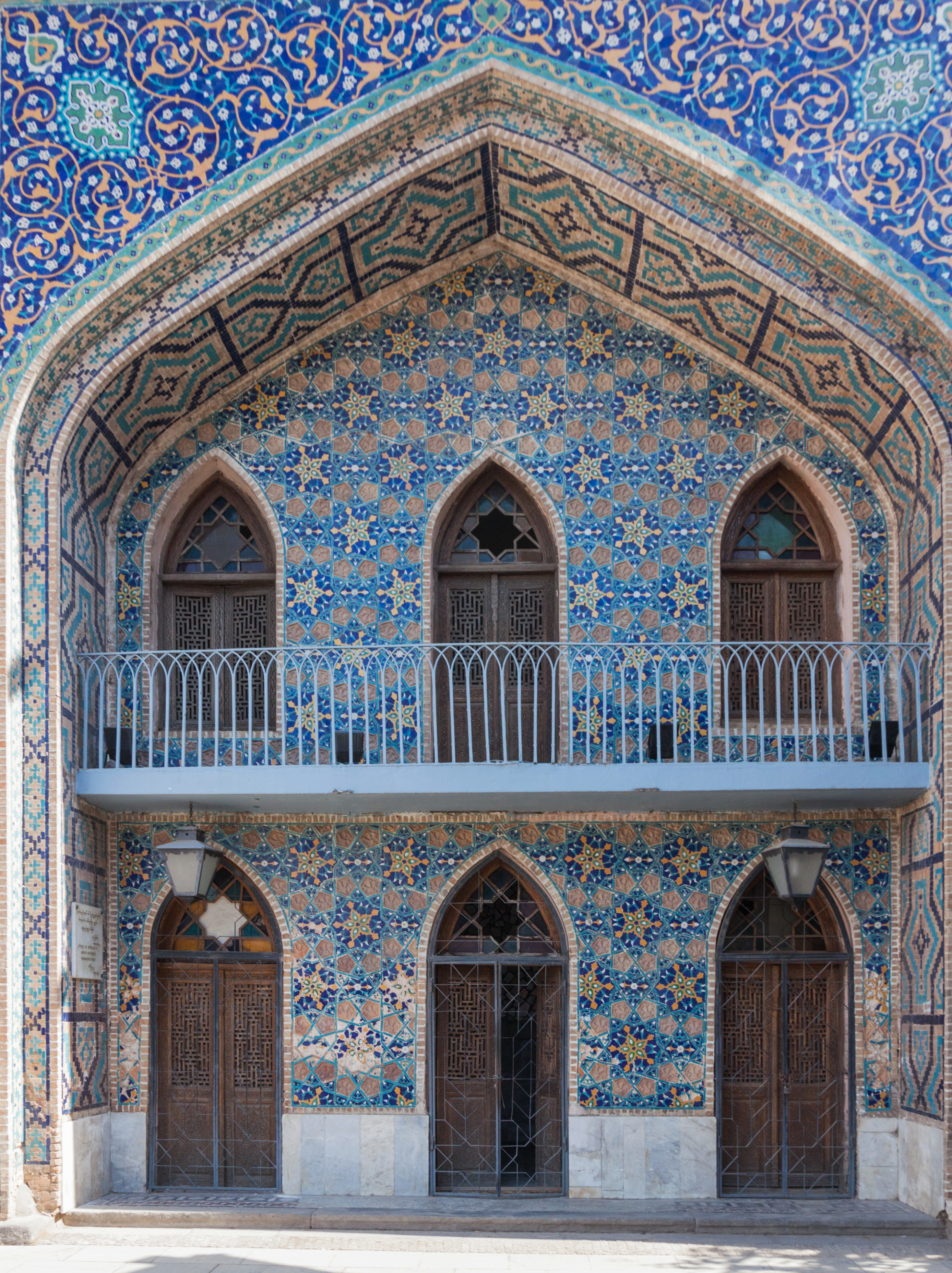 Decorated facade. Orbeliani Baths. Tbilisi, Georgia.